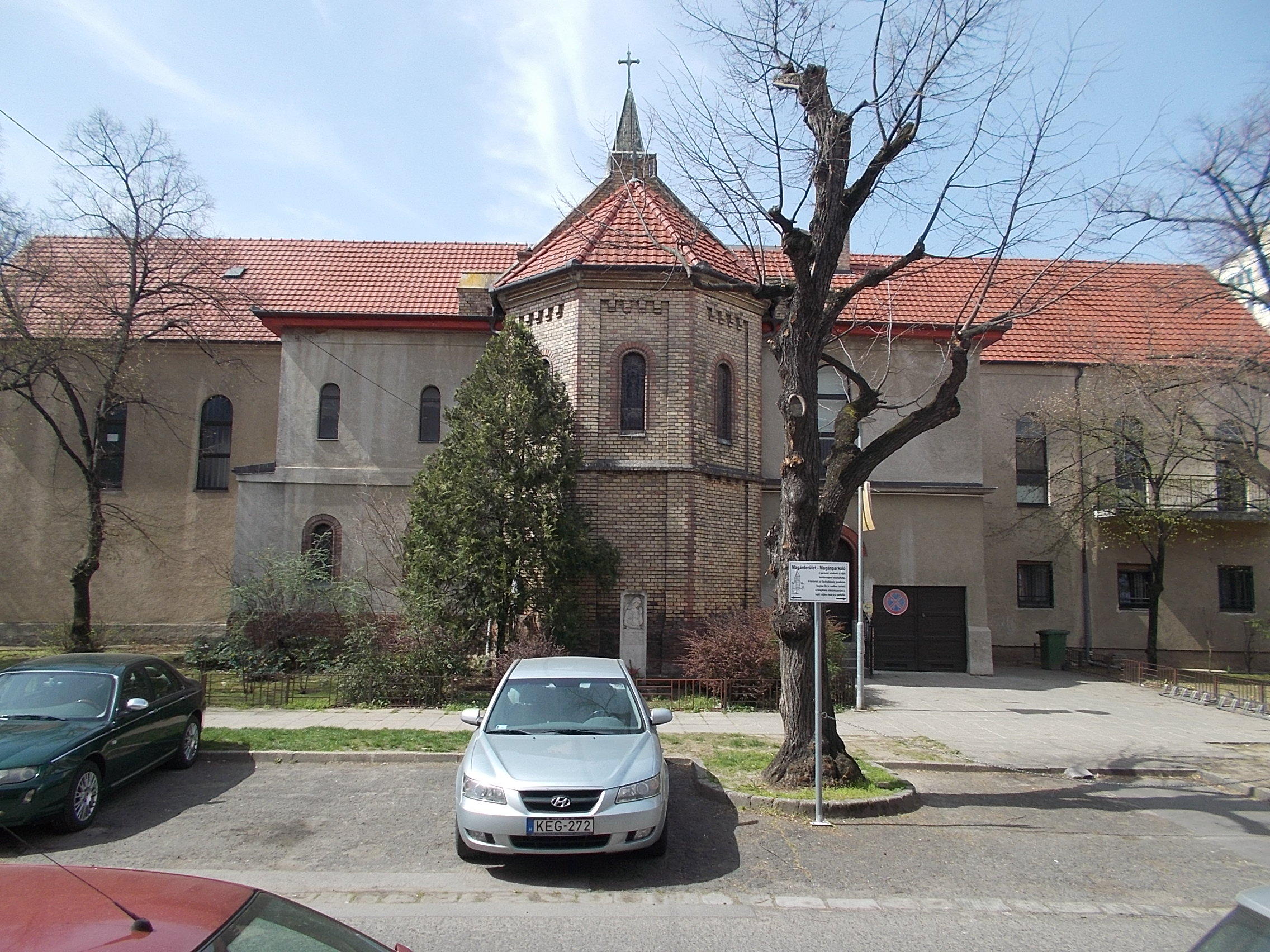 Saint Stephen of Hungary Church. According to József Pucher's plans, in 1887, the neo-Romanesque stone church was built in honor of King Stephen Stephen, which was extended by a side vessel in 1949. In 1971 a parish house was built in connection with the church. - Álmos vezér tere, Rákosfalva neighborhood, Zugló, Budapest.